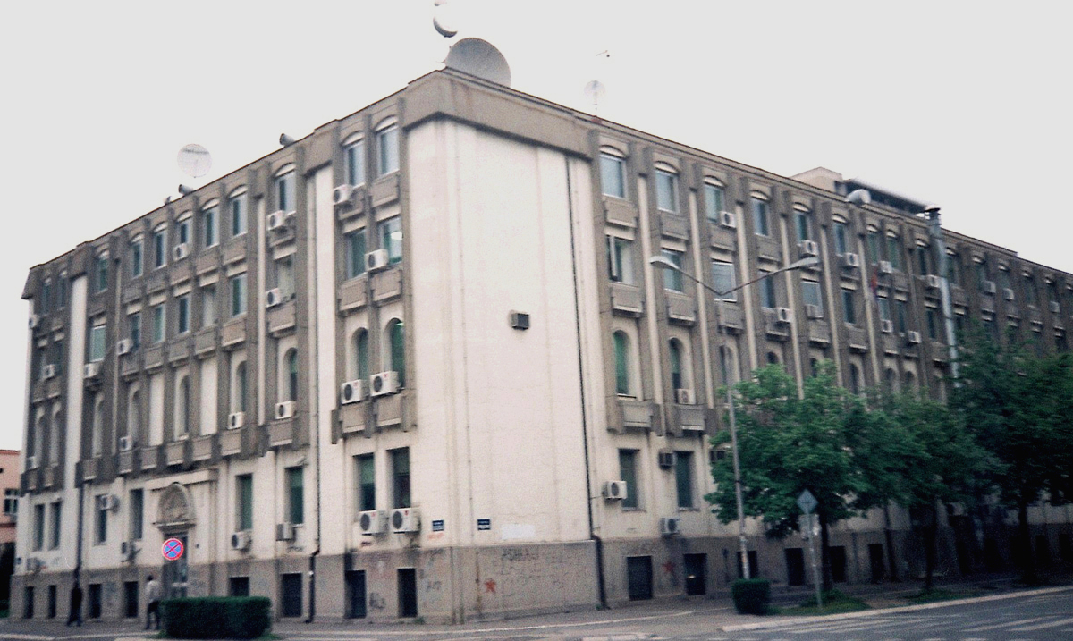 Building of Novi Sad Television (Radio Television of Vojvodina) in Novi Sad.